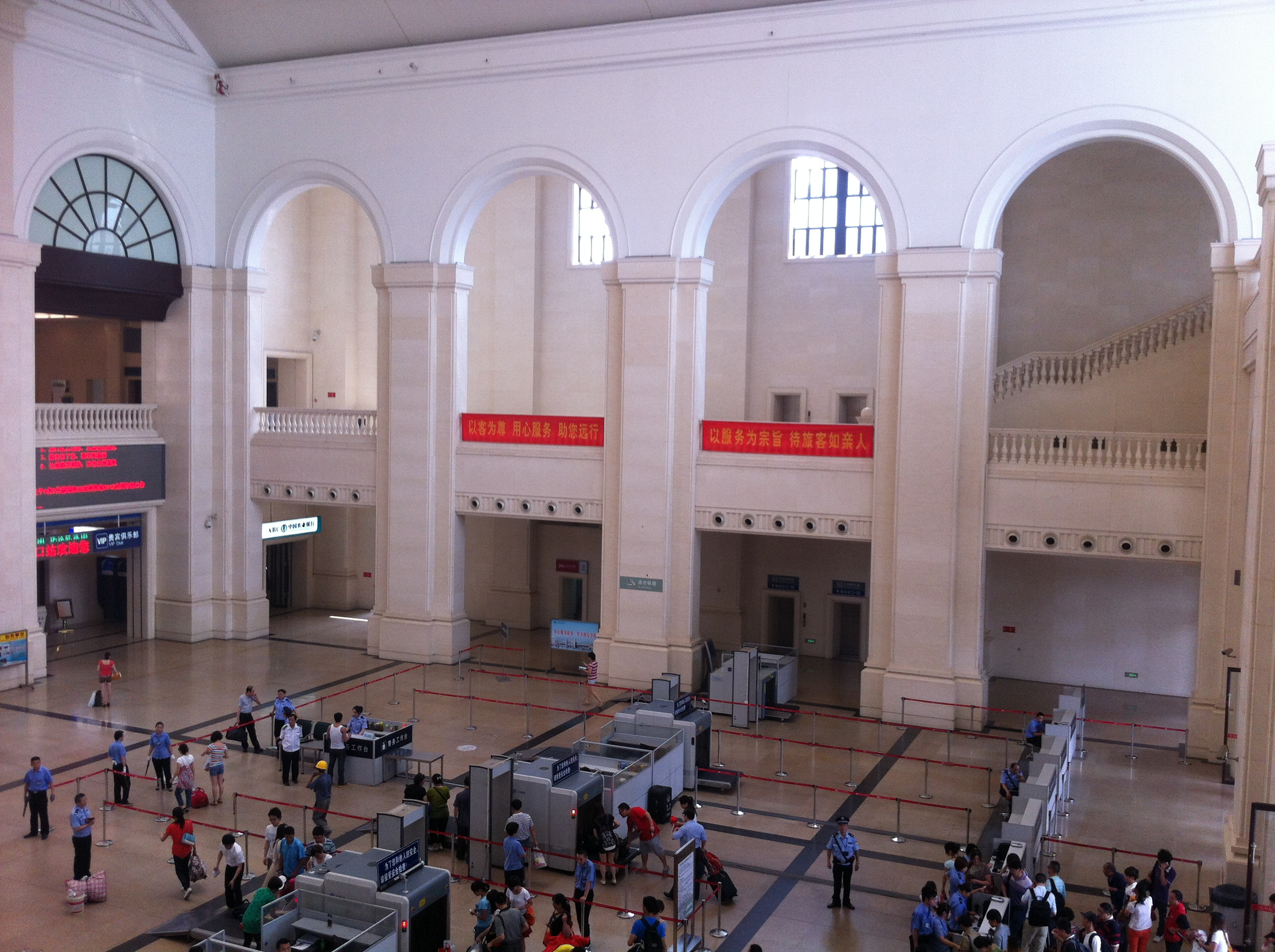 Hankou Railway Station Inside